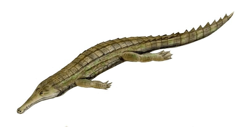 Elosuchus cherifiensis, a crocodilian from the Lower Cretaceous of North Africa, pencil drawing, digital coloring